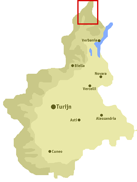 Position of the vallies Valle Antigorio and Valle Formazza